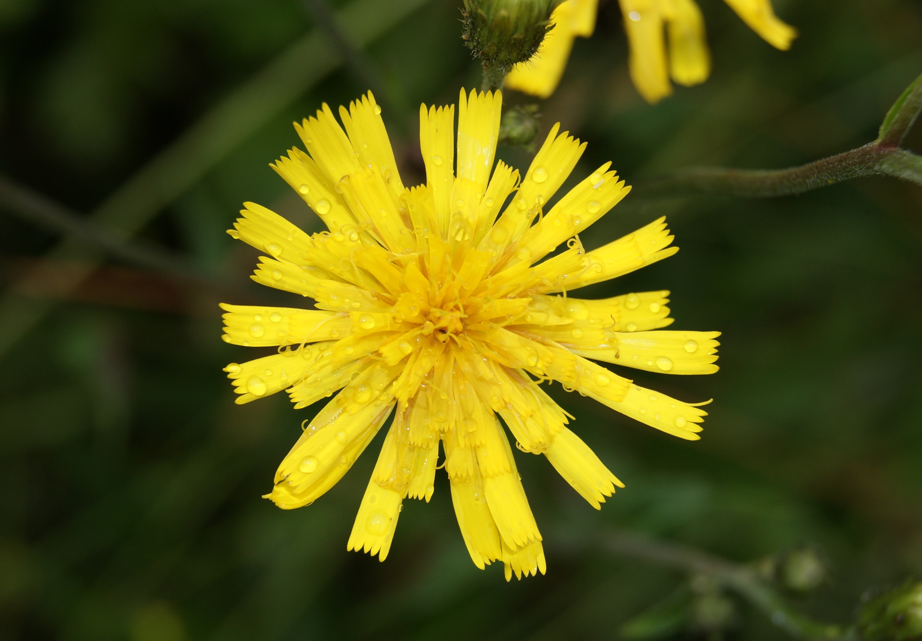 Hieracium laevigatum, Germany.